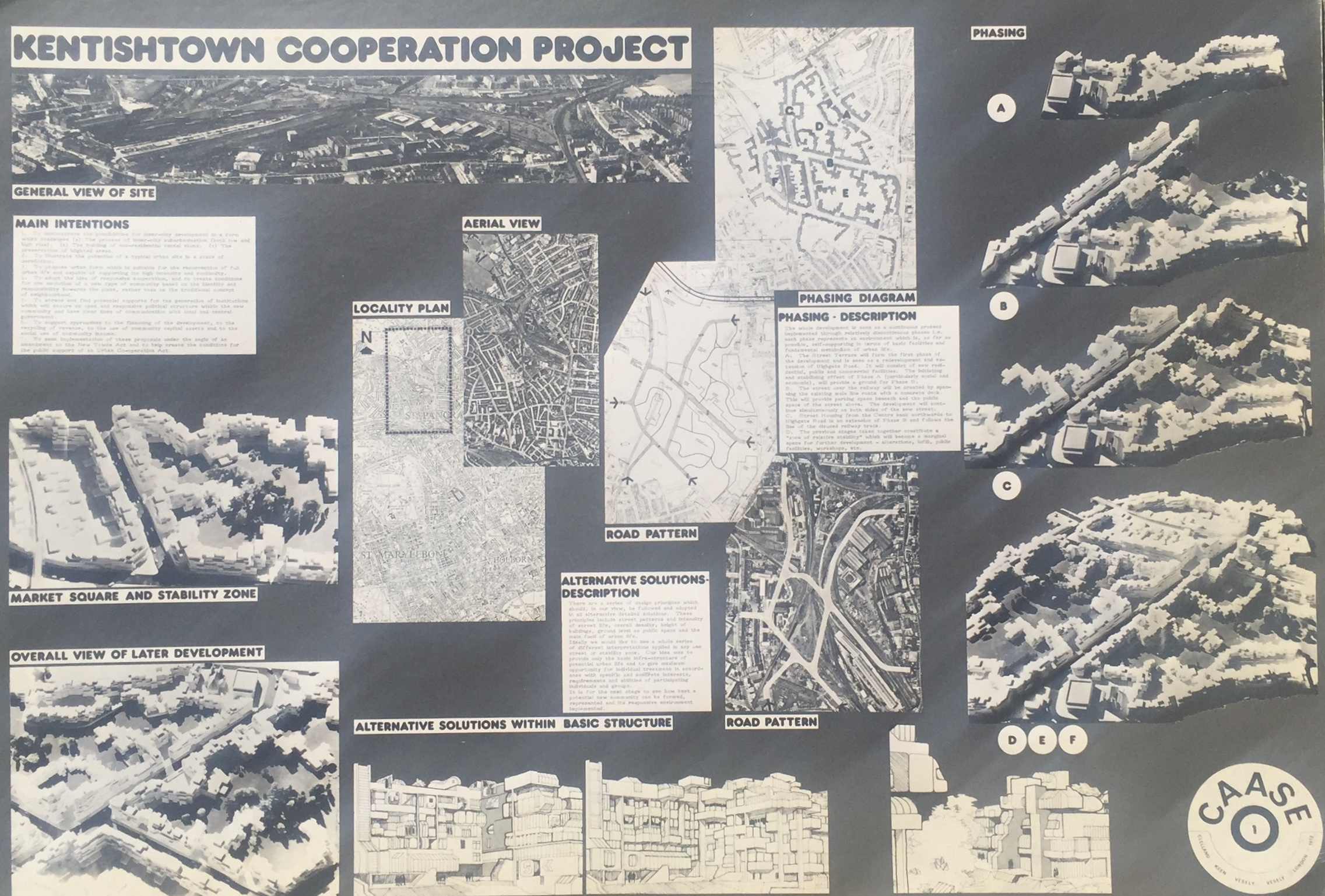 Featured images for Douglas Jarvie Clelland Wikipedia article